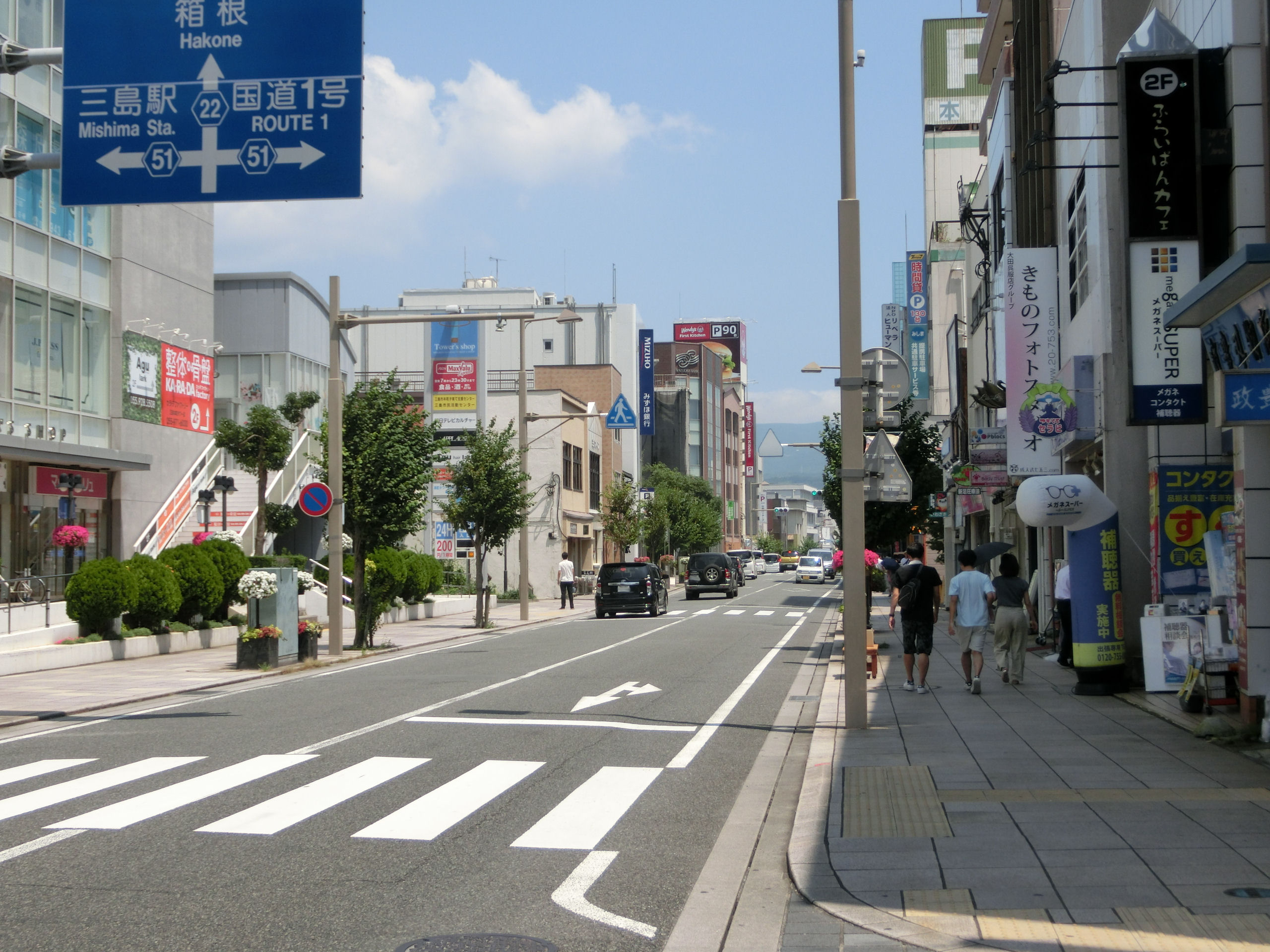 Mishima Odori Shopping Street